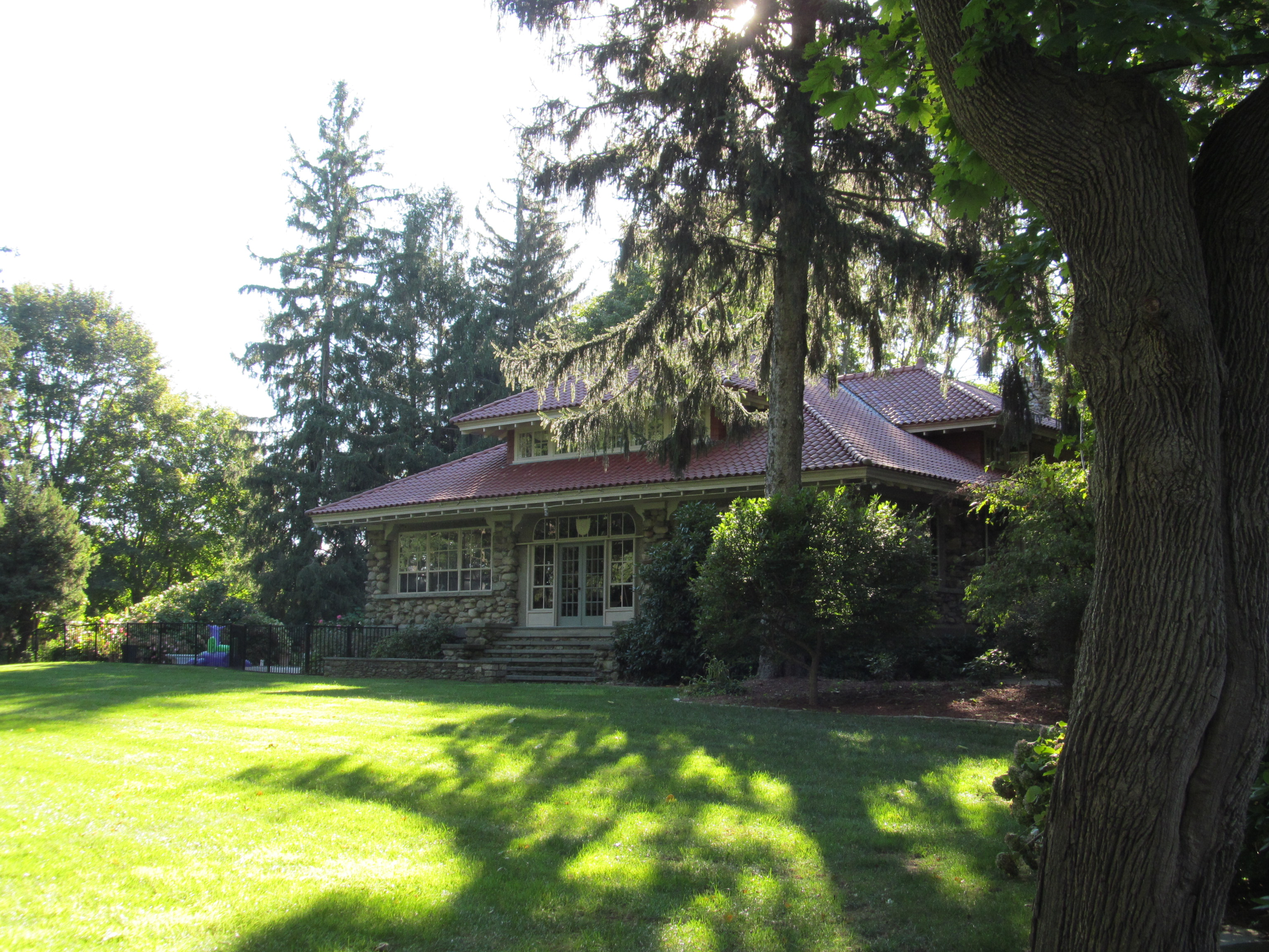 J. V. Johnson House, South Swansea Massachusetts